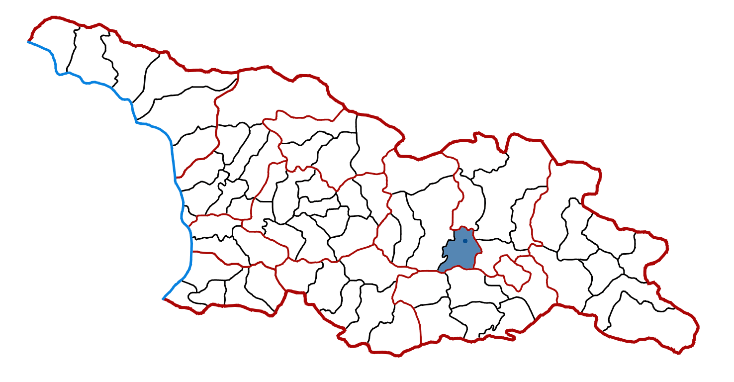 Location of Kaspi district in Georgia